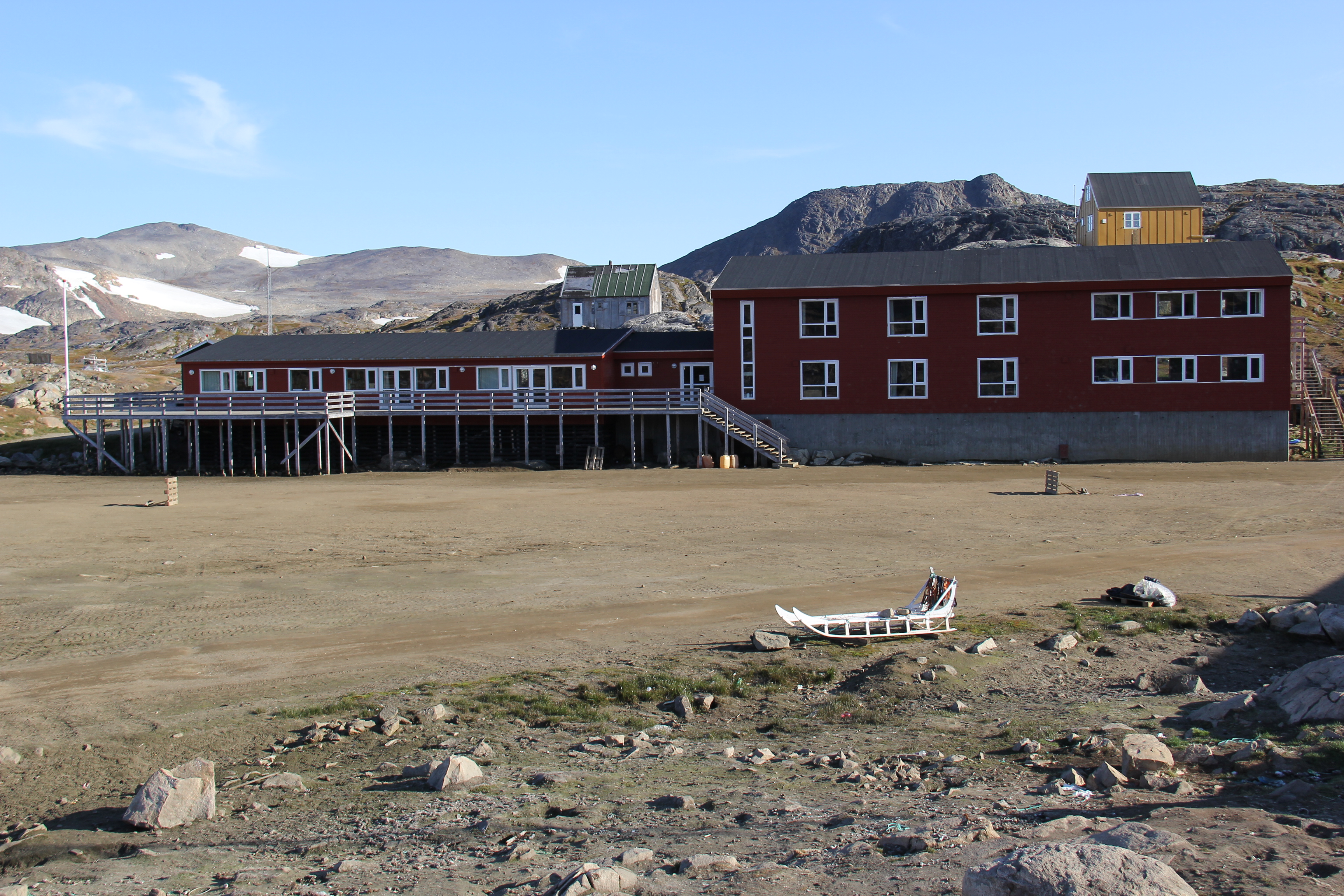 The school in the village of Kulusuk